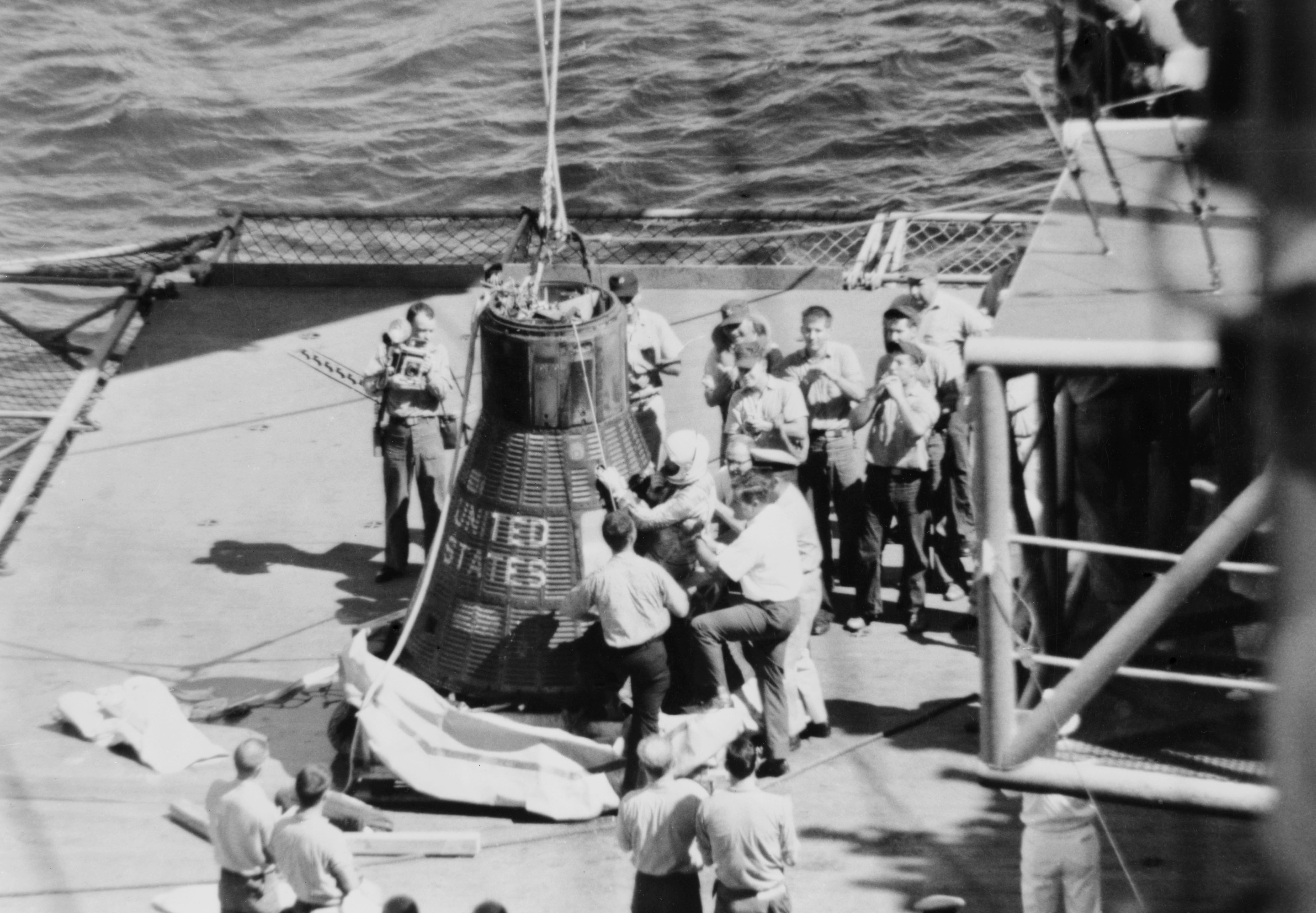 Wide angle view of the Mercury-Atlas 8 (MA-8) Astronaut Walter Schirra being removed from his Sigma 7 capsule by Navy personnel.